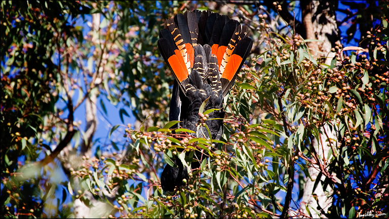 Summary (-this is actually a young male bird. Males have the solid red bars, but have stripes when they are immature, so he is going through his change.) Photographed by Gary Beilby on 18 June 2006. A female Red-tailed Black Cockatoo displays its tail while browsing for nuts in a Jarrah tree. Western Australia, Darling Scarp